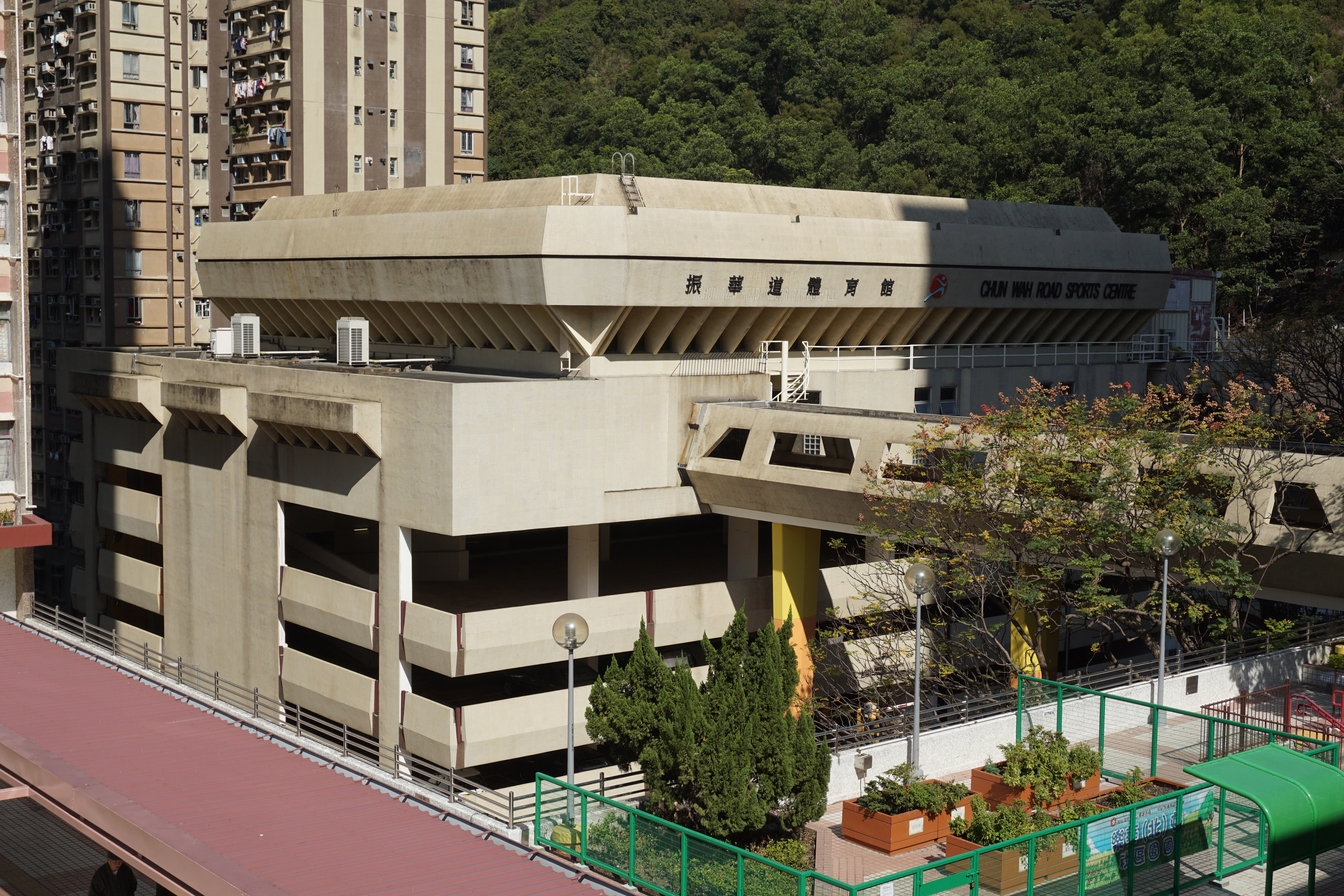 Lok Nga Court and Lok Wah North Estate in Ngau Tau Kok, Hong Kong.